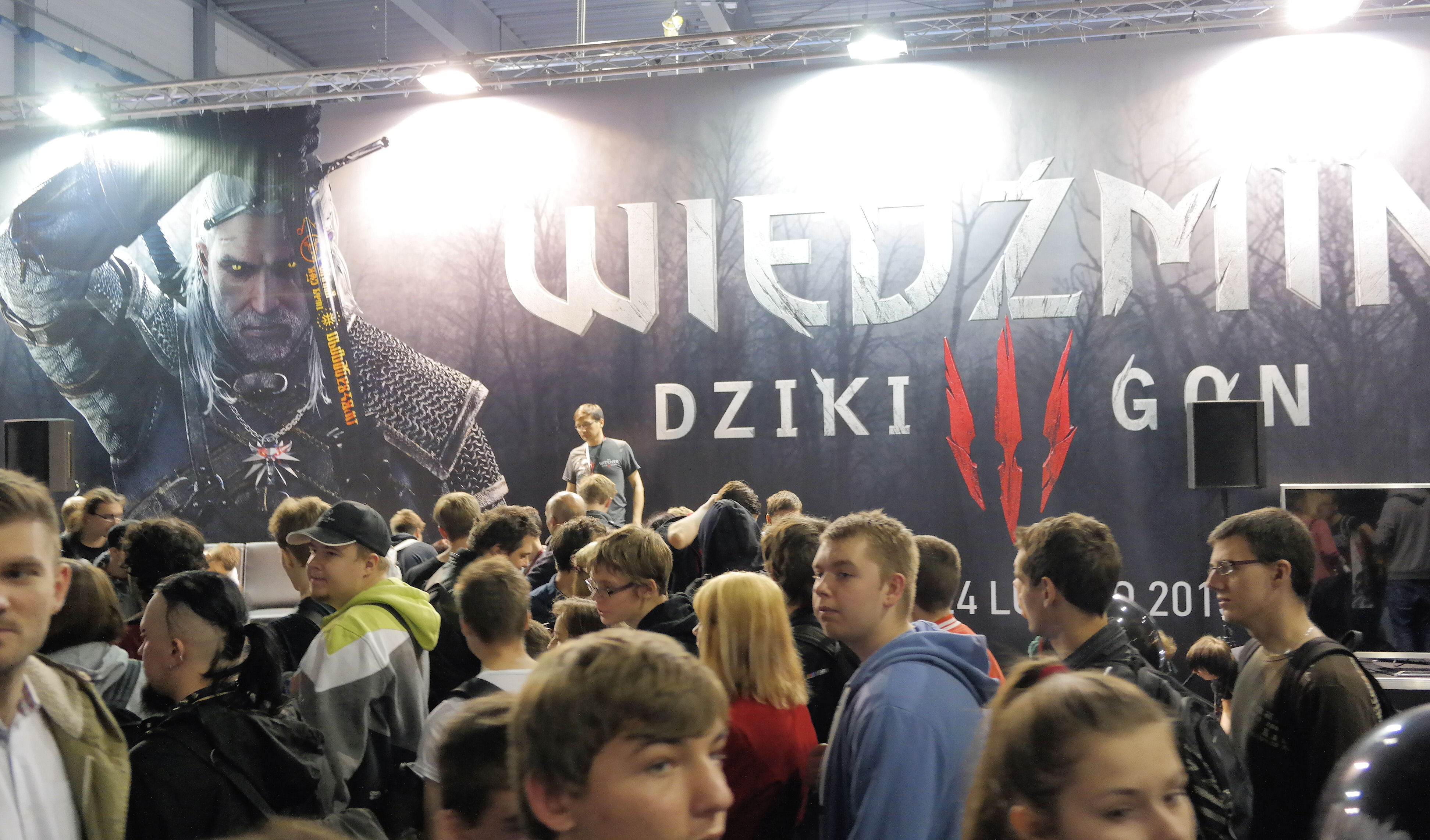 Withcer 3, Poznań Game Arena, Poland